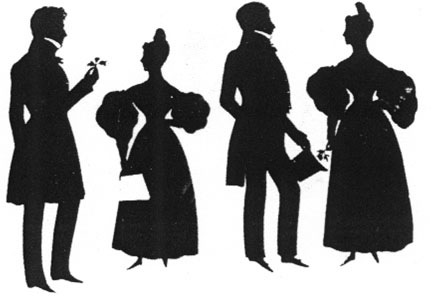 Silhouette cutout of The Ball Family Irish Naturalists Robert, Anne, Bent and Mary From the 1830's, based on the women's clothing styles...